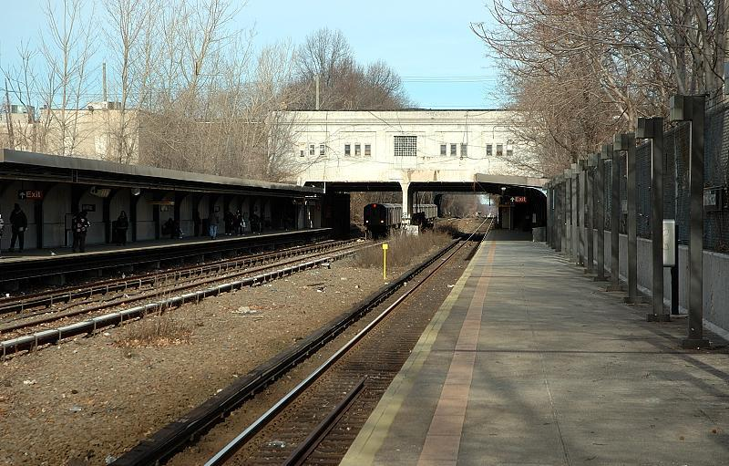 The Gun Hill Road subway station, in 2006. Originally taken by David Holland, and allowed usage (of all photos) under attribution in advance.